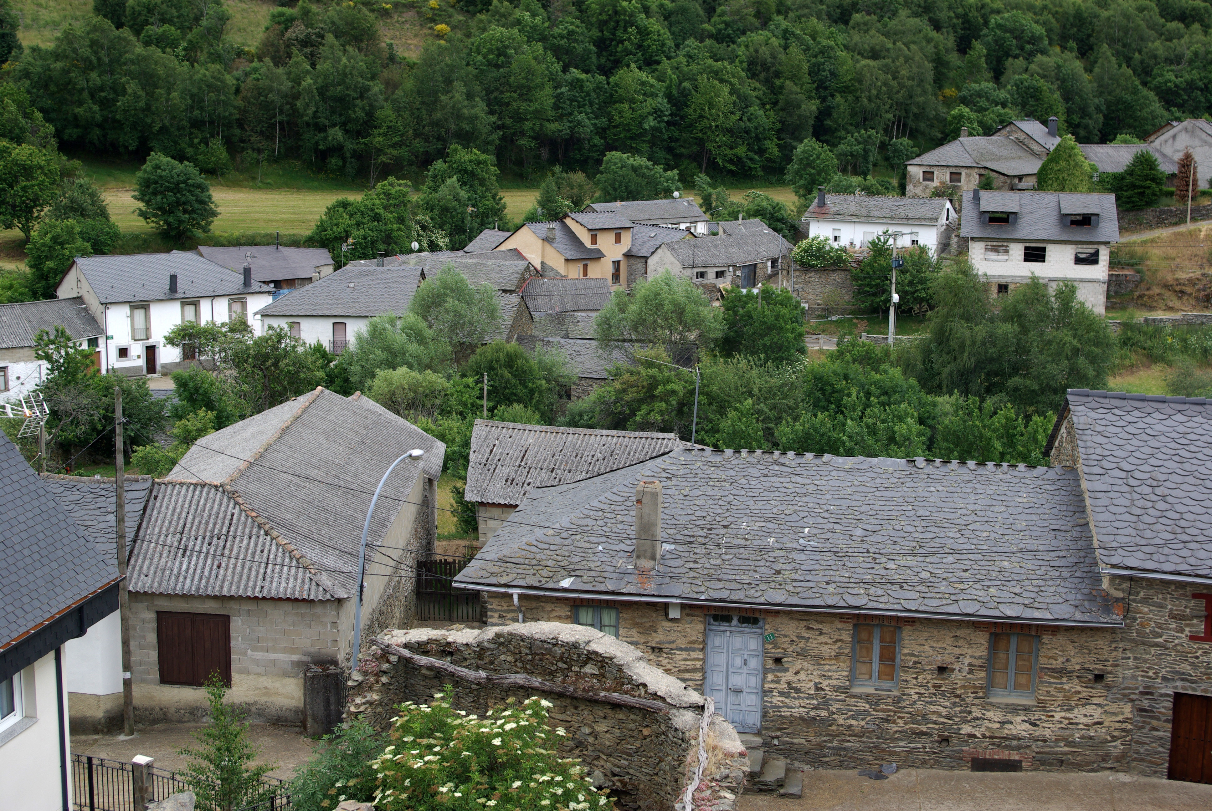 Villanueva de Omaña (Murias de Paredes, León, Spain)